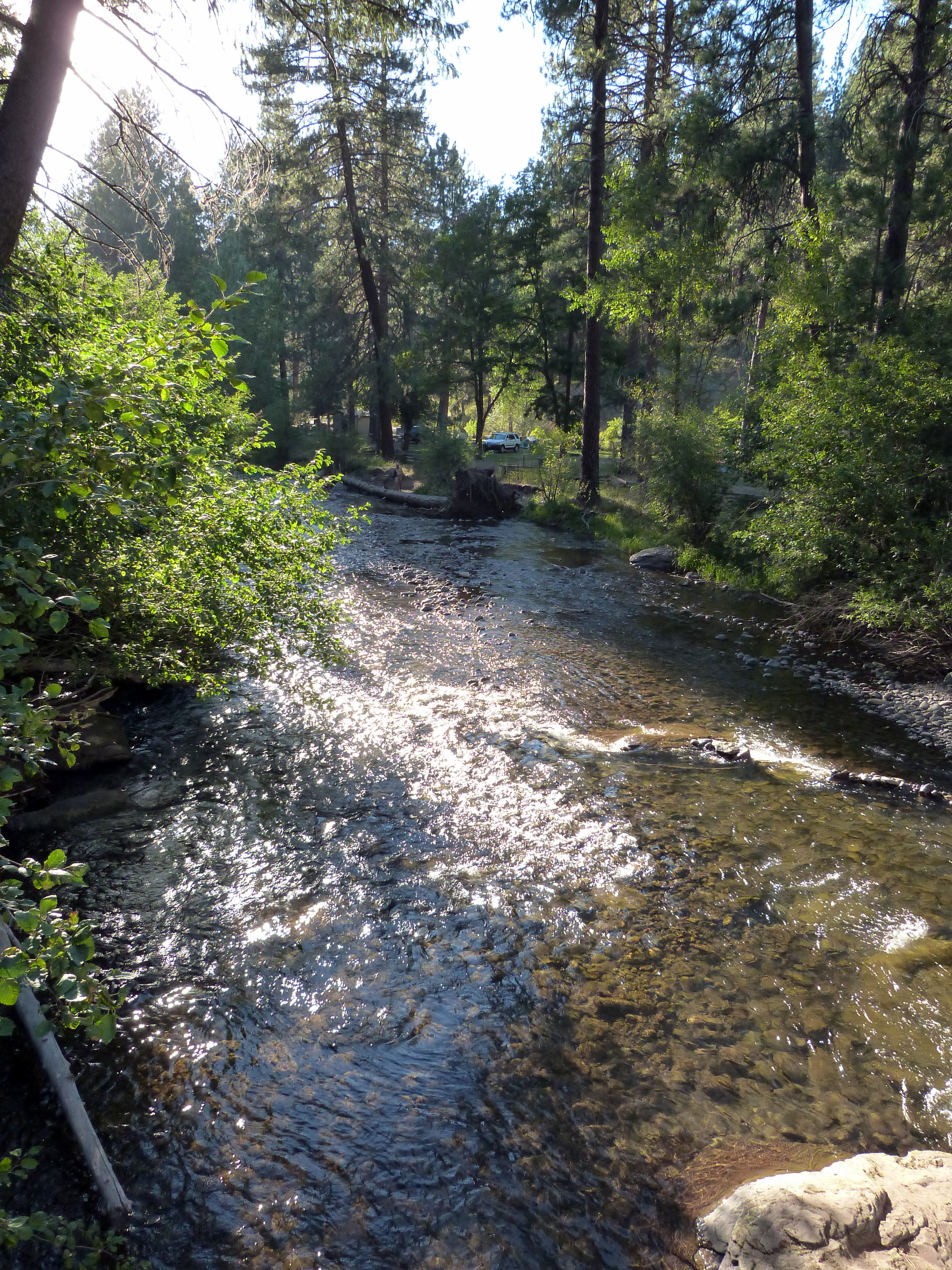 Catherine Creek as it passes through Catherine Creek State Park in the Wallowa Mountains of Union County, Oregon, United States. The state park campground can be seen in the background forest.